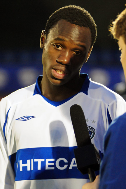 Photo of soccer player, Dever Orgill being interviewed by media at Swangard Stadium in Burnaby, BC, Canada.